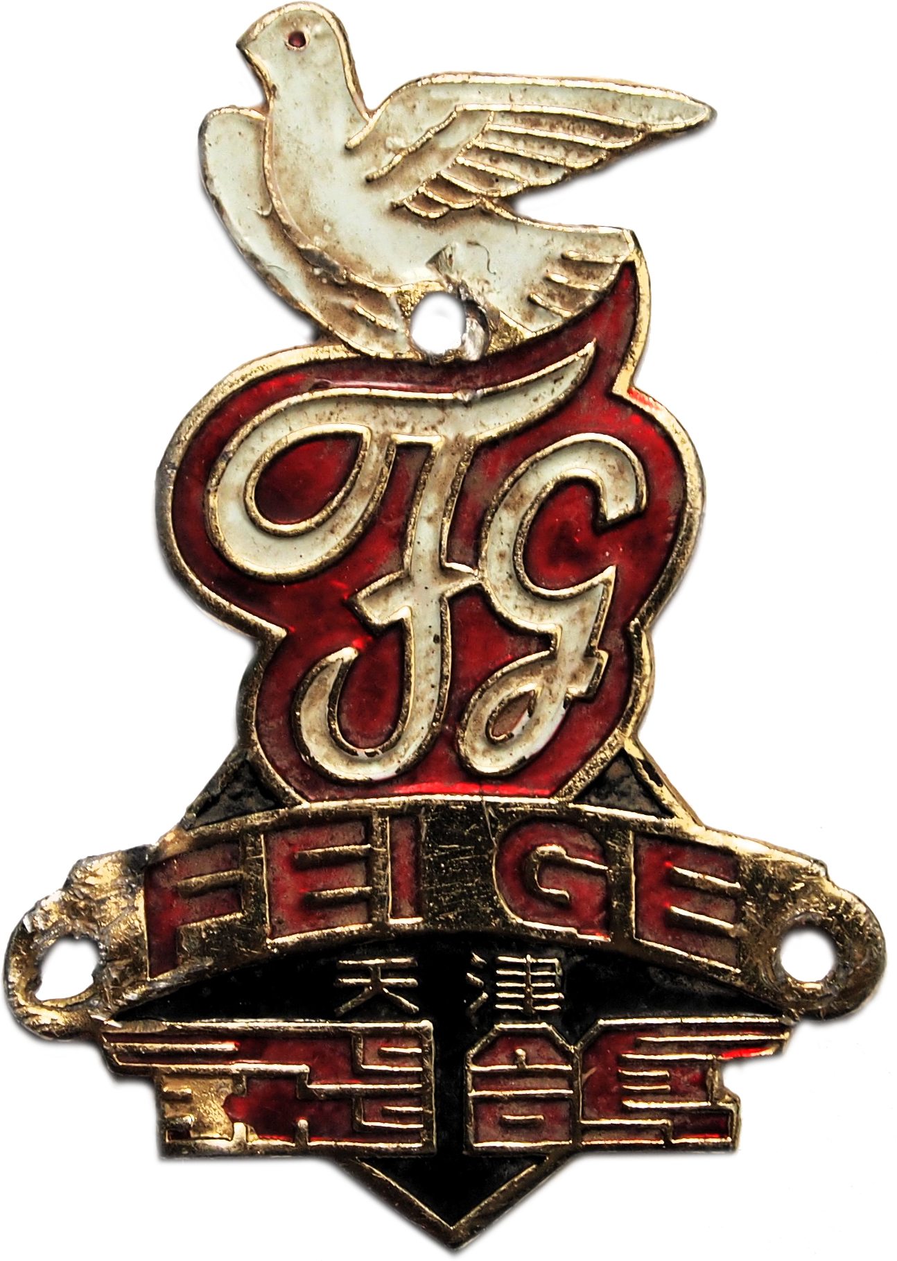 A picture of the headbadge from a Flying Pigeon brand of bicycle, removed from the bicycle and photographed on a simple background. Flying Pigeon bicycles began to be manufactured in 1950.